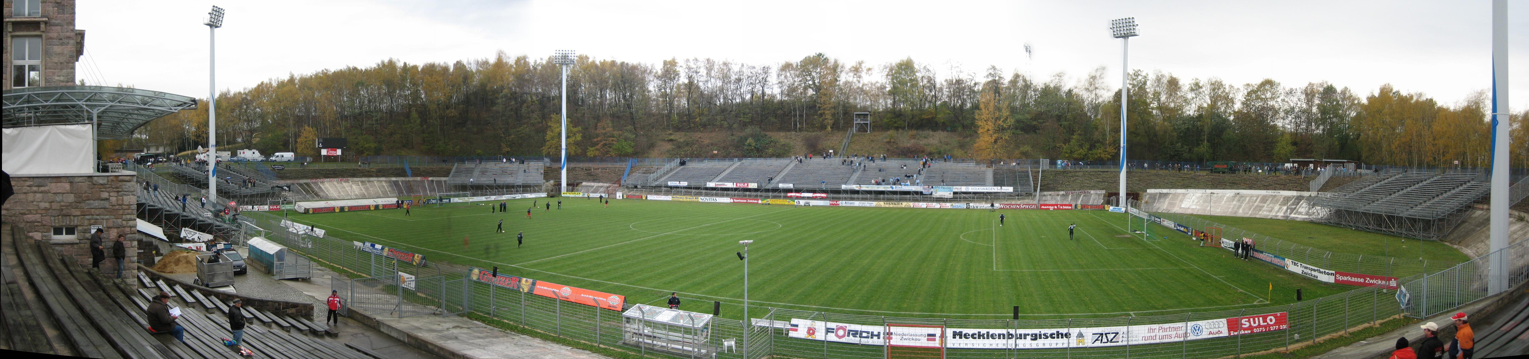 This picture shows the Westsachsenstadion in Zwickau, Germany.